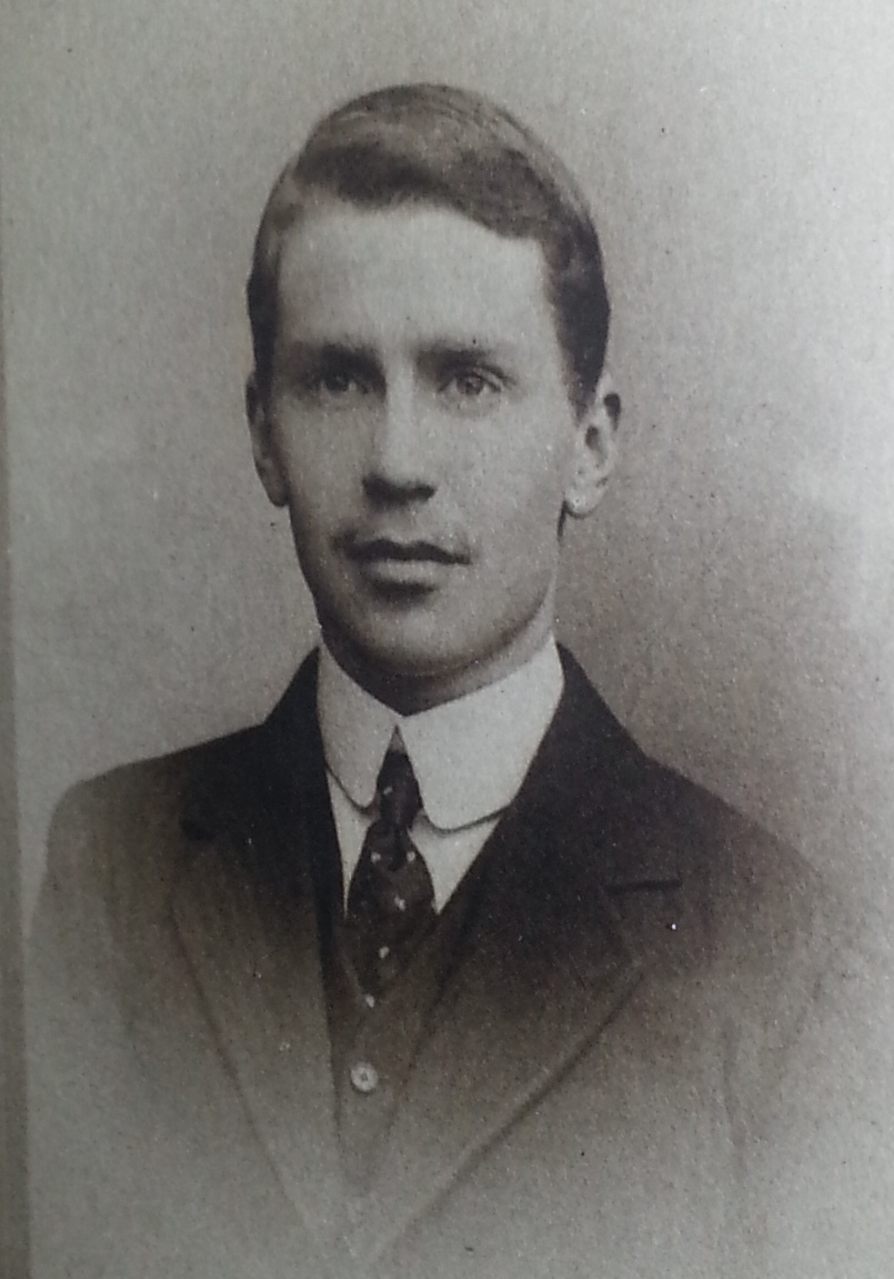 Ewart Douglas Horsfall Circa 1910